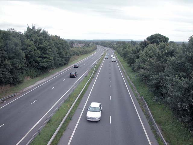 The A55 at Warren Mountain in north Wales.